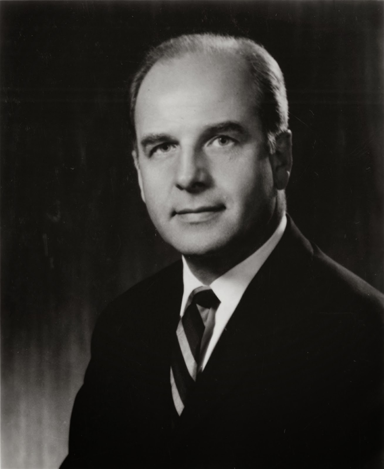 Picture of the Governor of Wisconsin Gaylord Nelson